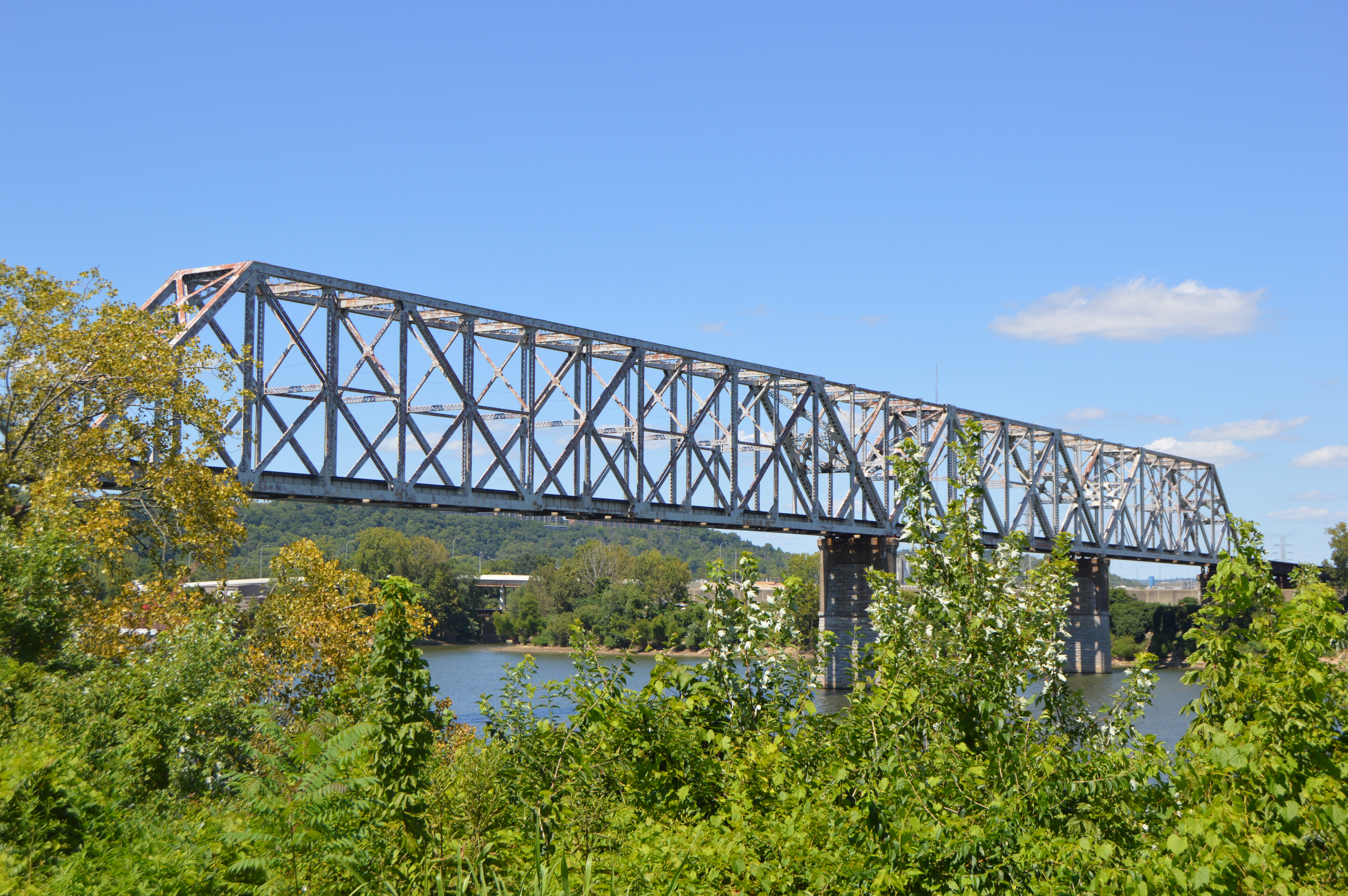 Eastern side (seen from River Road in Ludlow), of the Cincinnati Southern Bridge, which carries a Norfolk Southern Railway line over the Ohio River in the United States between the cities of Ludlow, Kentucky and Cincinnati, Ohio. It was built in 1877.